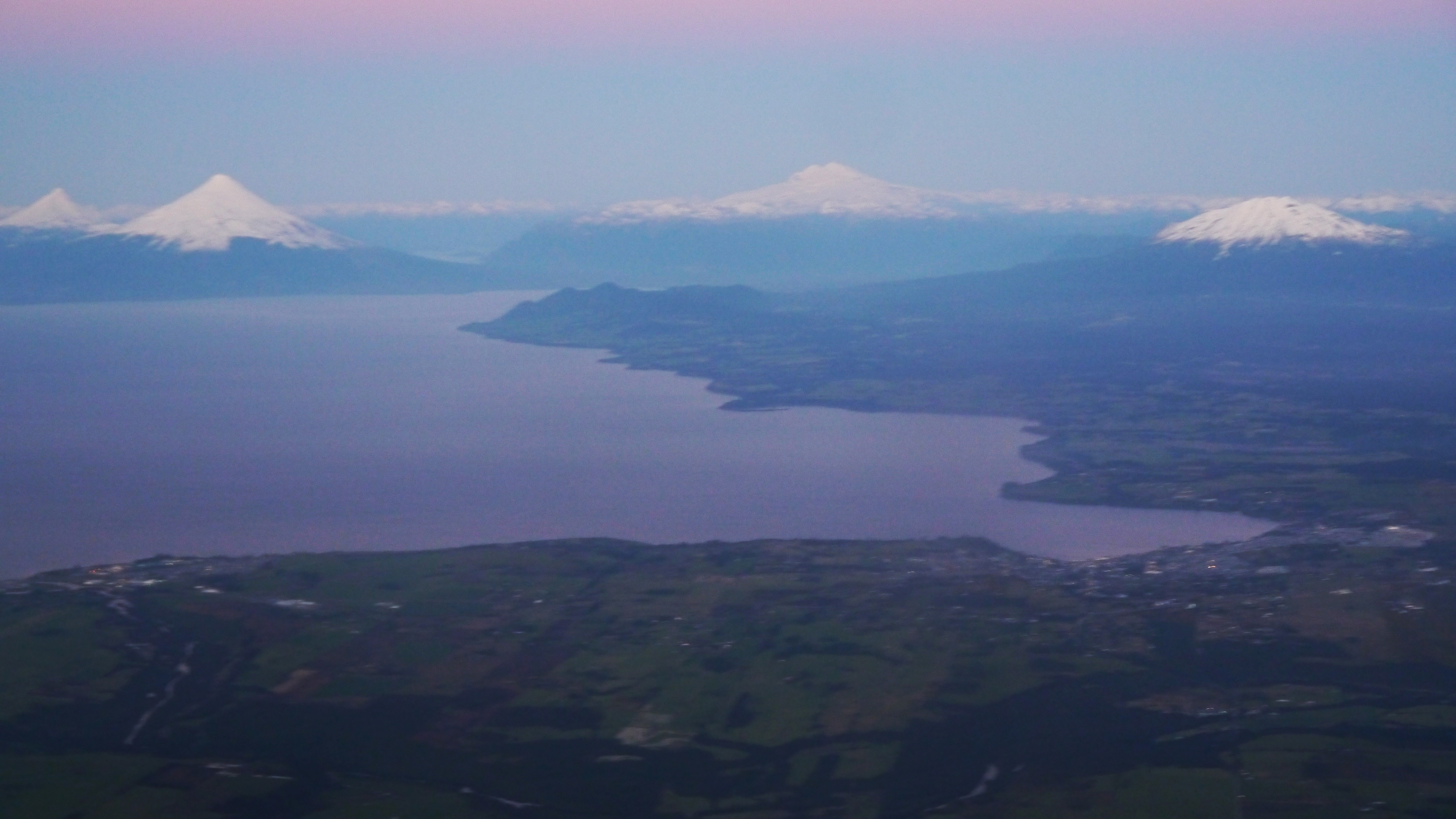 Panorámica de Lago Llanquihue